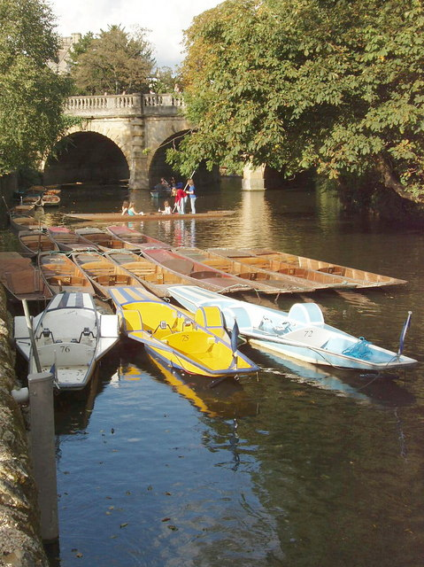 Pedalo punts, Magdalen Bridge, Oxford. Pedalo punts were introduced in 1999 to the horror of those used to punts with poles. Photo from the Botanic Gardens. The punts are on the Cherwell, with Magdalen Bridge beyond.